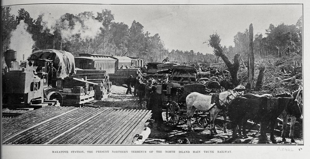 1908 transfer from railway to connecting coaches